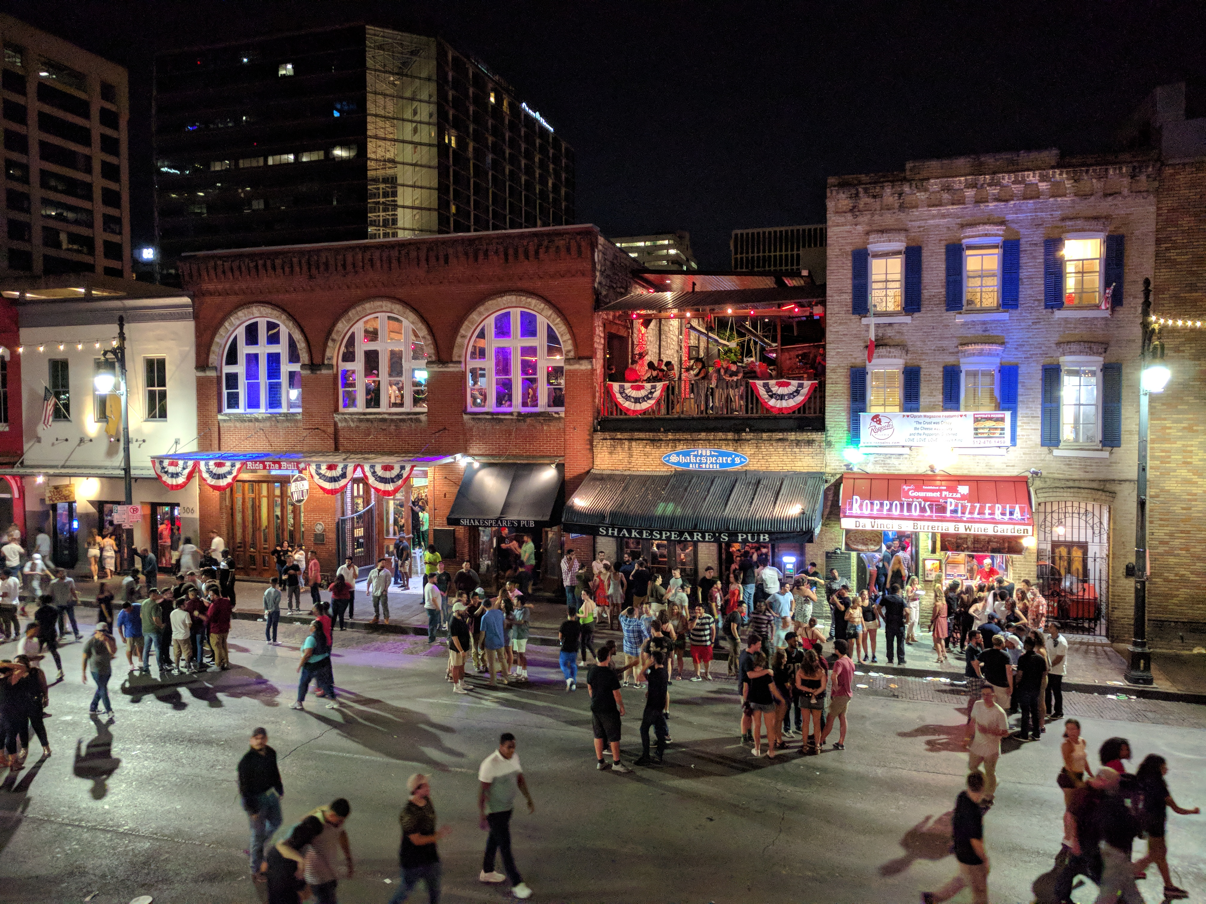 Night life in the Sixth Street Historic District in Downtown Austin.